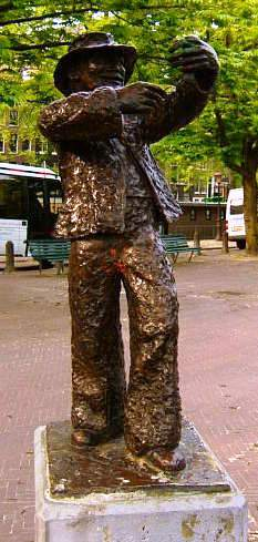 the Market Crier-Professor Kokadorus one of Amsterdam's most famous street traders